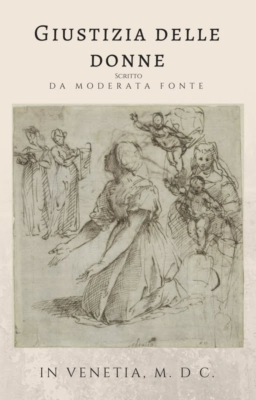 Covert of Giustizia delle donne, by Moderata Fonte